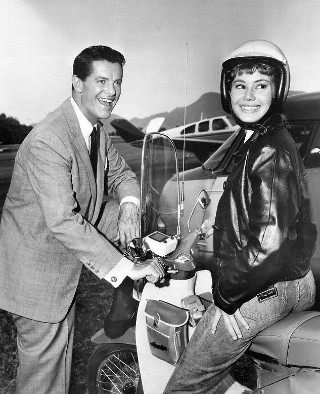 Photo of Bob Cummings and Roberta Shore from the television program The New Bob Cummings Show.